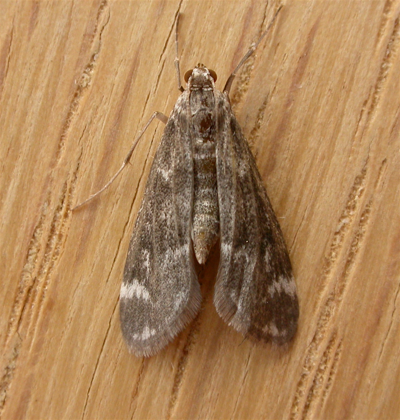 A Hygraula nitens in Australia.